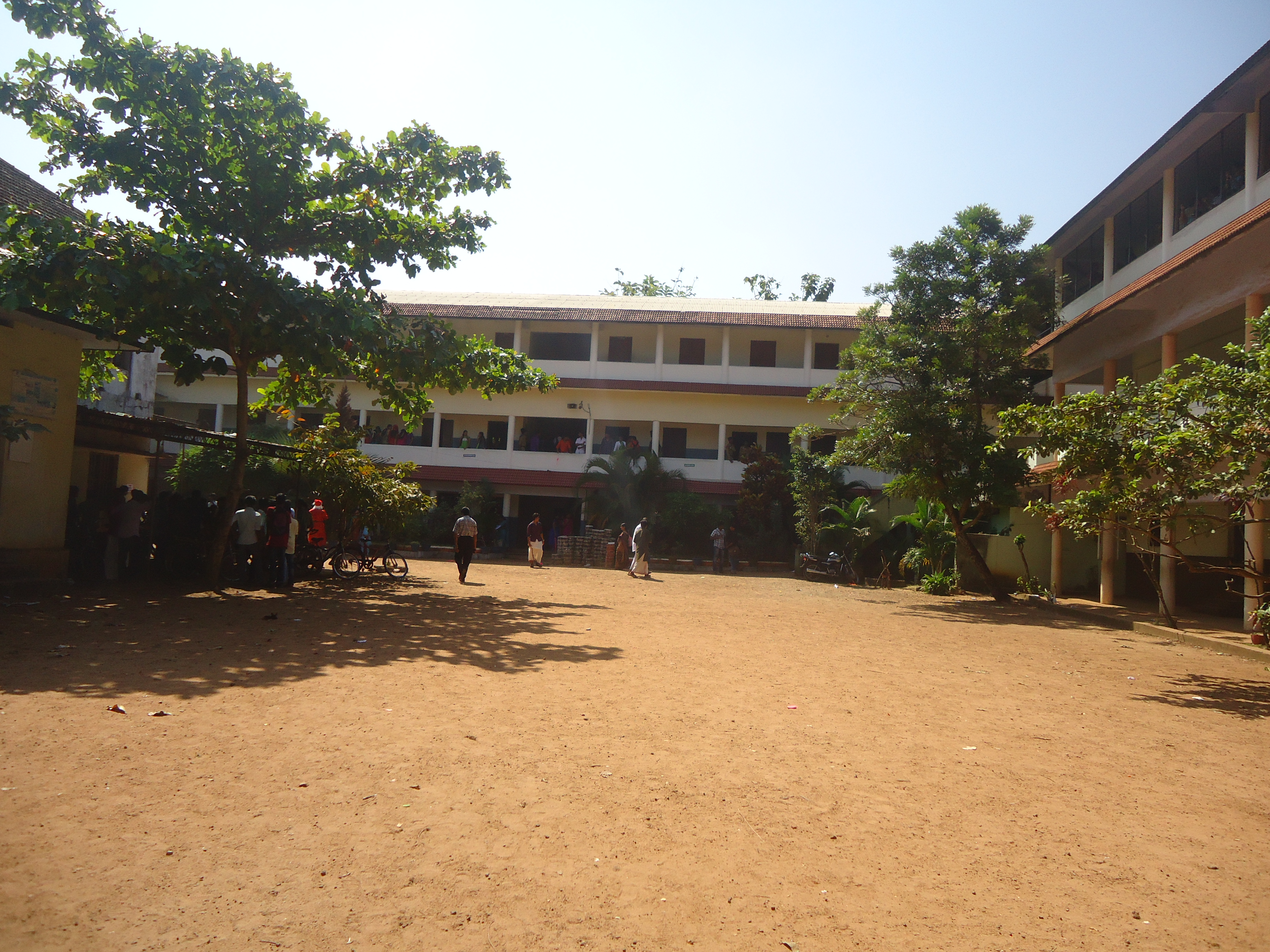 Inside Of Nair Samajam School Mannar